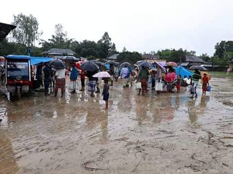 Shitol Bazar